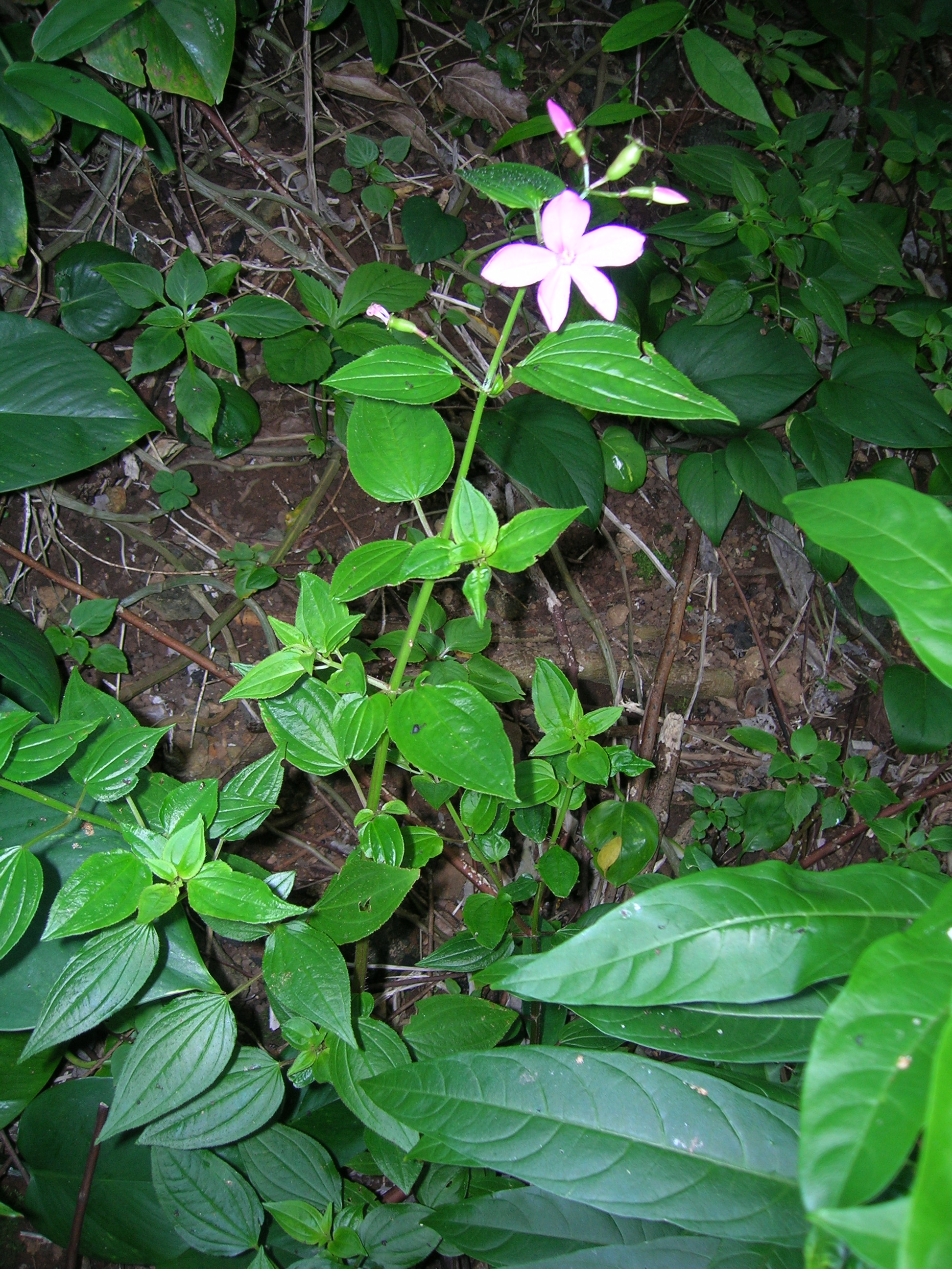 Arthrostemma ciliatum (habit). Location: Oahu, Nuuanu